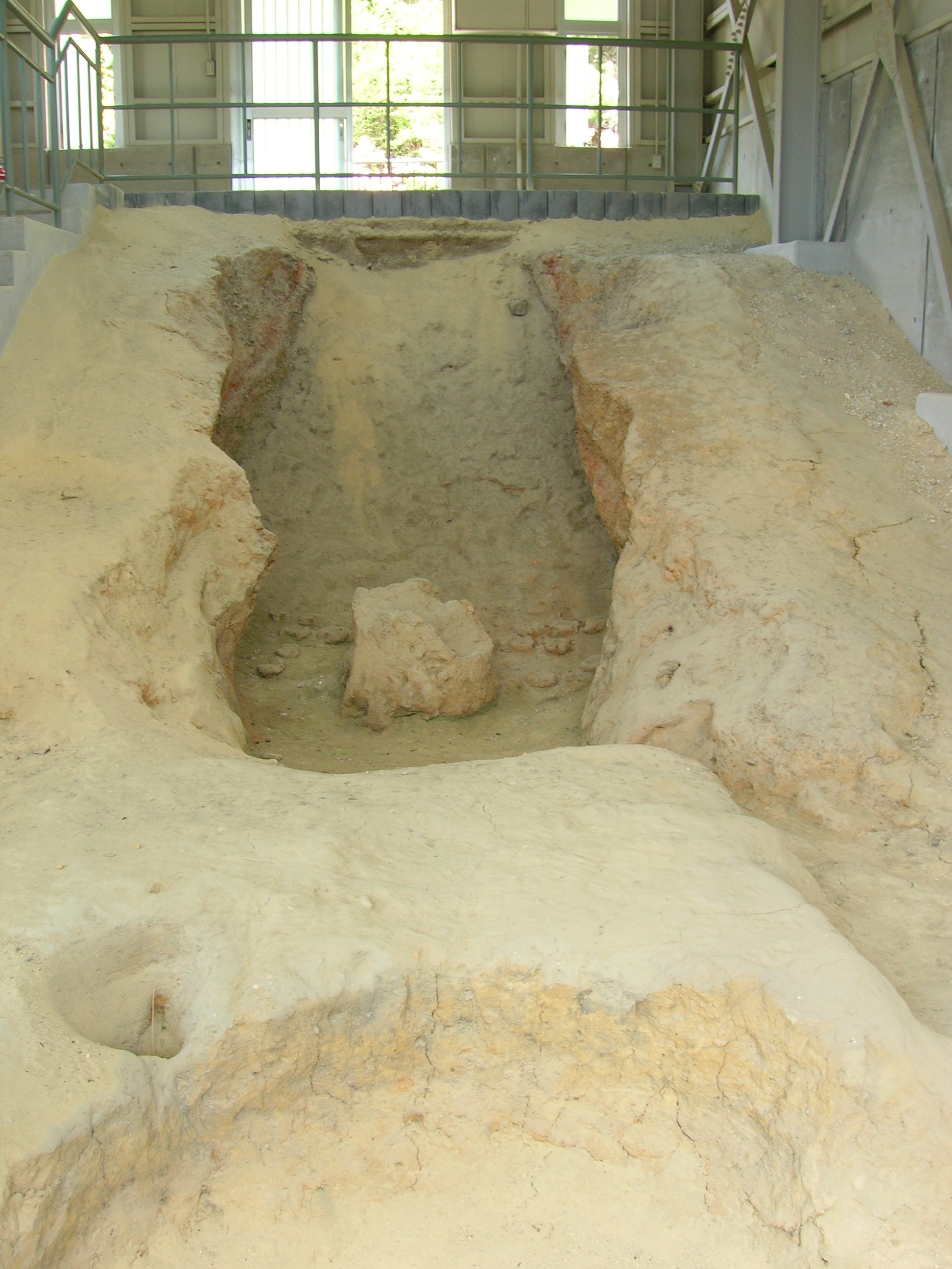 Minamiyama koyouseki-gun (Ruins of Minamiyama Old kilns). These anagama kilns were used until the Heian period Kamakura period. Loc: Seto city, Aichi Prefecture, Japan. 南山古窯跡群・8号窯（正面） 撮影場所 愛知県瀬戸市・愛知県陶磁資料館